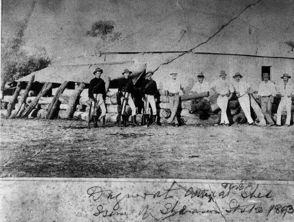 Troopers at Dagworth Station during the Shearer's Strike in 1894 Shown is the temporary shearing shed used after the main shed was burnt by unionists; note the heavy fortifications. On the left in the dark tops are three policemen; the middle one is Senior Constable Michael Daly who was involved in the shoot-out when the main shearing shed was burnt down at the station. Beside them are the squatters who owned the station, Angus Macpherson, Gideon Macpherson, Robert (Bob) Macpherson, and Jack Macpherson. At image right are Weldon Tomlin who was the shed overseer, and Henry Dyer. These men were also involved in the altercation at the burning of the shed. The three policemen and Bob McPherson are thought to be the three troopers and the squatter referred to in the poem/song Waltzing Matilda. (Reference: O'Keeffe, Dennis (2012). Waltzing Matilda: The Secret History of Australia's Favourite Song. Sydney: Allen and Unwin. ISBN 978-1-74237-706-3.)